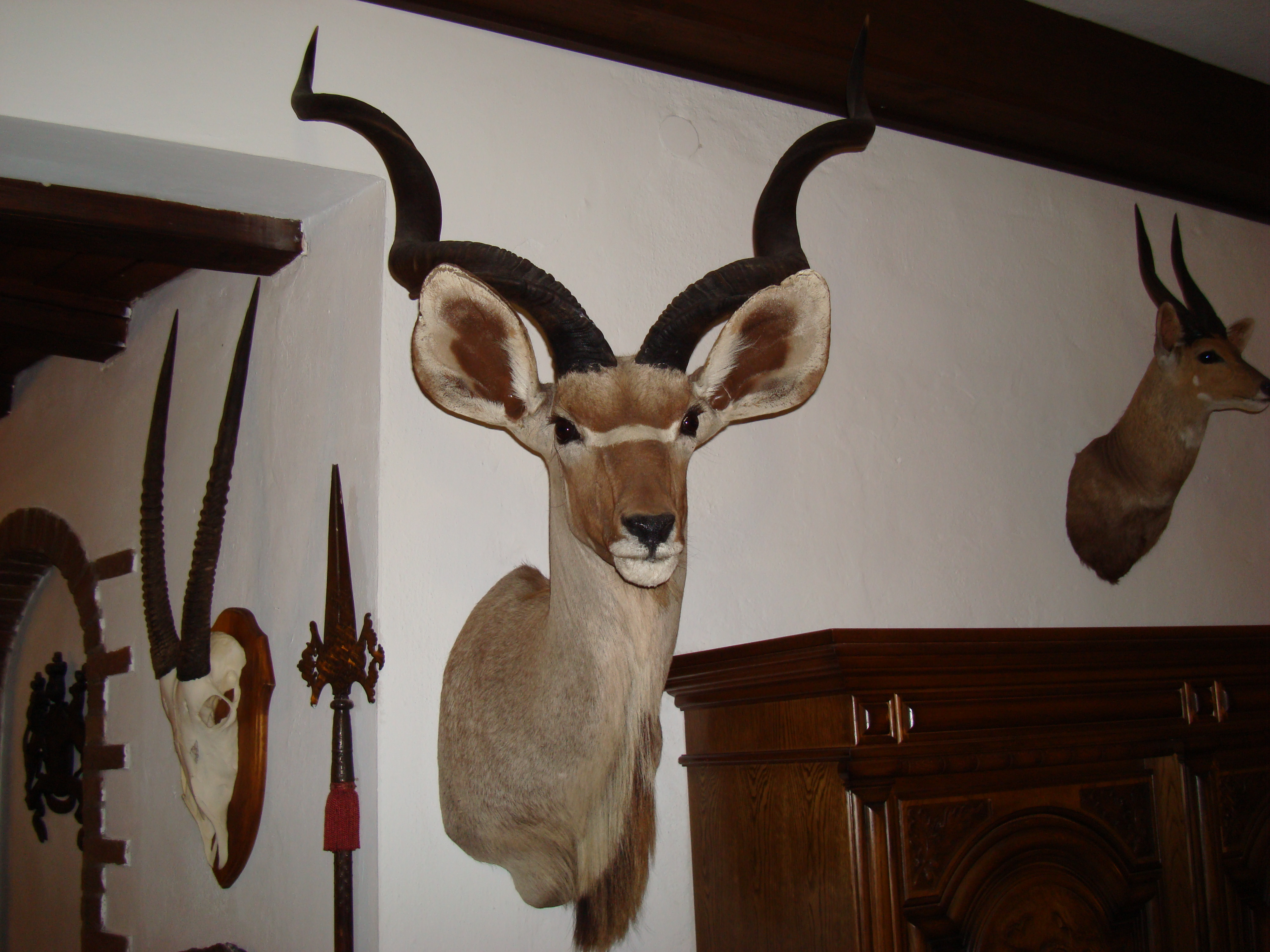 Hunting trophy at the Dachswald (Badger Forest) hotel in Stuttgart, Germany